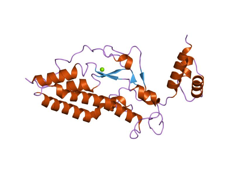 Cartoon representation of the molecular structure of protein registered with 1v0d code.